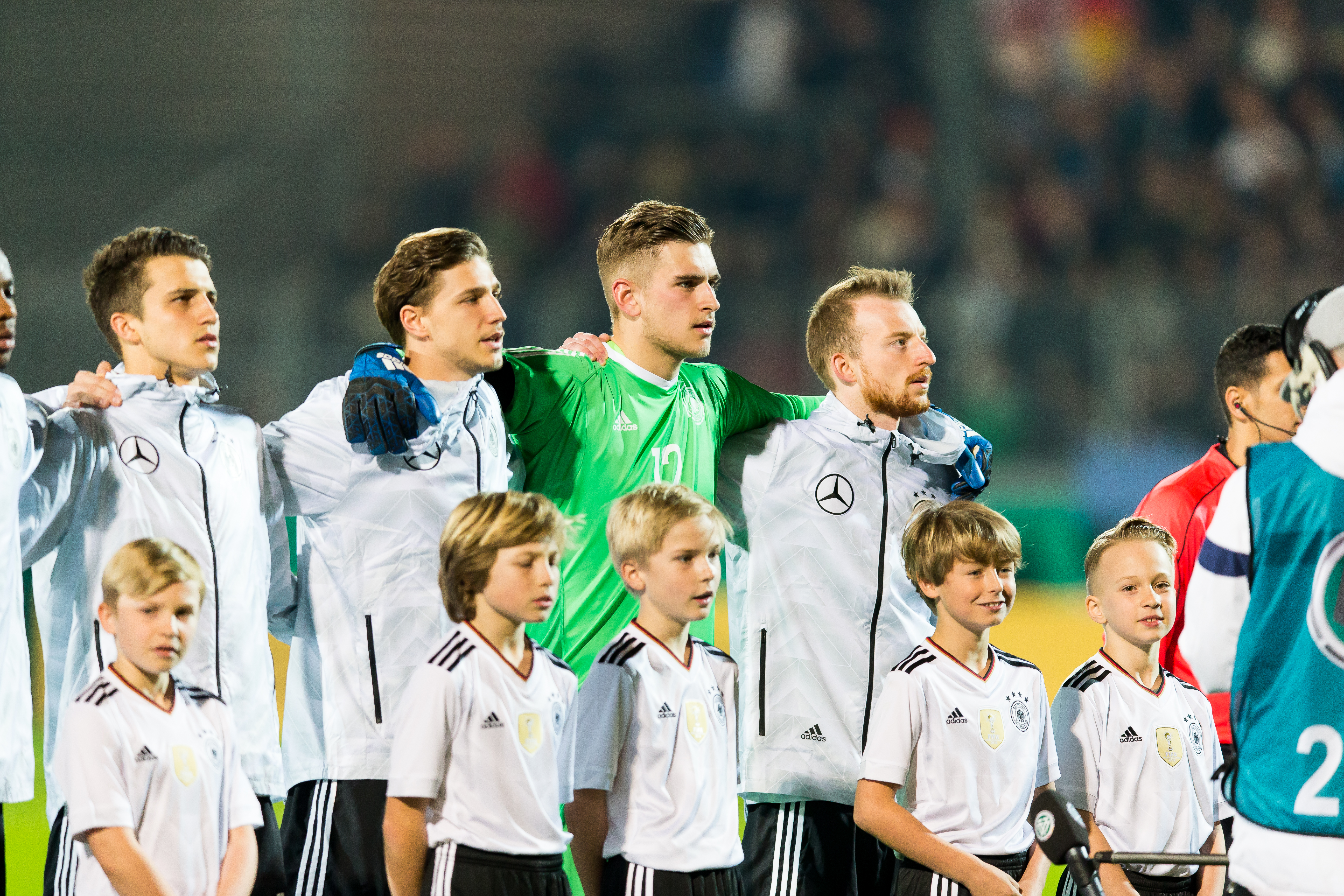 Football U21 Germany vs England (1:0) Team Germany 12 Julian Pollersbeck (1. FC Kaiserslautern) 1 Marvin Schwäbe (Dynamo Dresden) 23 Odisseas Vlachodimos (Panathinaikos Athen) 16 Kevin Akpoguma (Fortuna Düsseldorf) 3 Yannick Gerhardt (VfL Wolfsburg) 5 Matthias Ginter (Borussia Dortmund) 22 Benjamin Henrichs (Bayer 04 Leverkusen) 15 Marc-Oliver Kempf (SC Freiburg) 4 Niklas Stark (Hertha BSC) 13 Jeremy Toljan (1899 Hoffenheim) 2 Mitchell Weiser (Hertha BSC) 18 Nadiem Amiri (1899 Hoffenheim) 10 Maximilian Arnold (VfL Wolfsburg) 25 Hany Mukhtar (Brøndby IF) 7 Max Meyer (FC Schalke 04) 19 Janik Haberer (SC Freiburg) 21 Gideon Jung (Hamburger SV) 20 Levin Öztunali (1. FSV Mainz 05) 17 Maximilian Philipp (SC Freiburg) 9 Davie Selke (RB Leipzig) 27 Thilo Kehrer (FC Schalke 04) Team England 1 Jordan Pickford (Sunderland) 2 Mason Holgate (Everton) 13 Angus Gunn (Manchester City) 21 Christian Walton (Brighton) 16 Kortney Hause (Wolverhampton) 5 Jack Stephens (Southampton) 15 Rob Holding (Arsenal) 12 Joe Gomez (Liverpool) 3 Ben Chilwell (Leicester City) 6 Alfie Mawson (Swansea City) 22 Sam McQueen (Southampton) 4 Nathaniel Chalobah (Chelsea) 14 Will Hughes (Derby County) 20 Ruben Loftus-Cheek (Chelsea) 10 Lewis Baker (Vitesse Arnheim) 18 John Swift (Reading) 23 Jack Grealish (Aston Villa) 8 Harry Winks (Hotspur) 19 Cauley Woodrow (Fulham) 9 Tammy Abraham (Bristol City) 17 Solly March (Brighton) 11 Jacob Murphy (Norwich) during Fussball U21 Deutschland vs England at Brita-Arena, Wiesbaden, Hessen, Germany on 2017-03-24, Photo: Sven Mandel